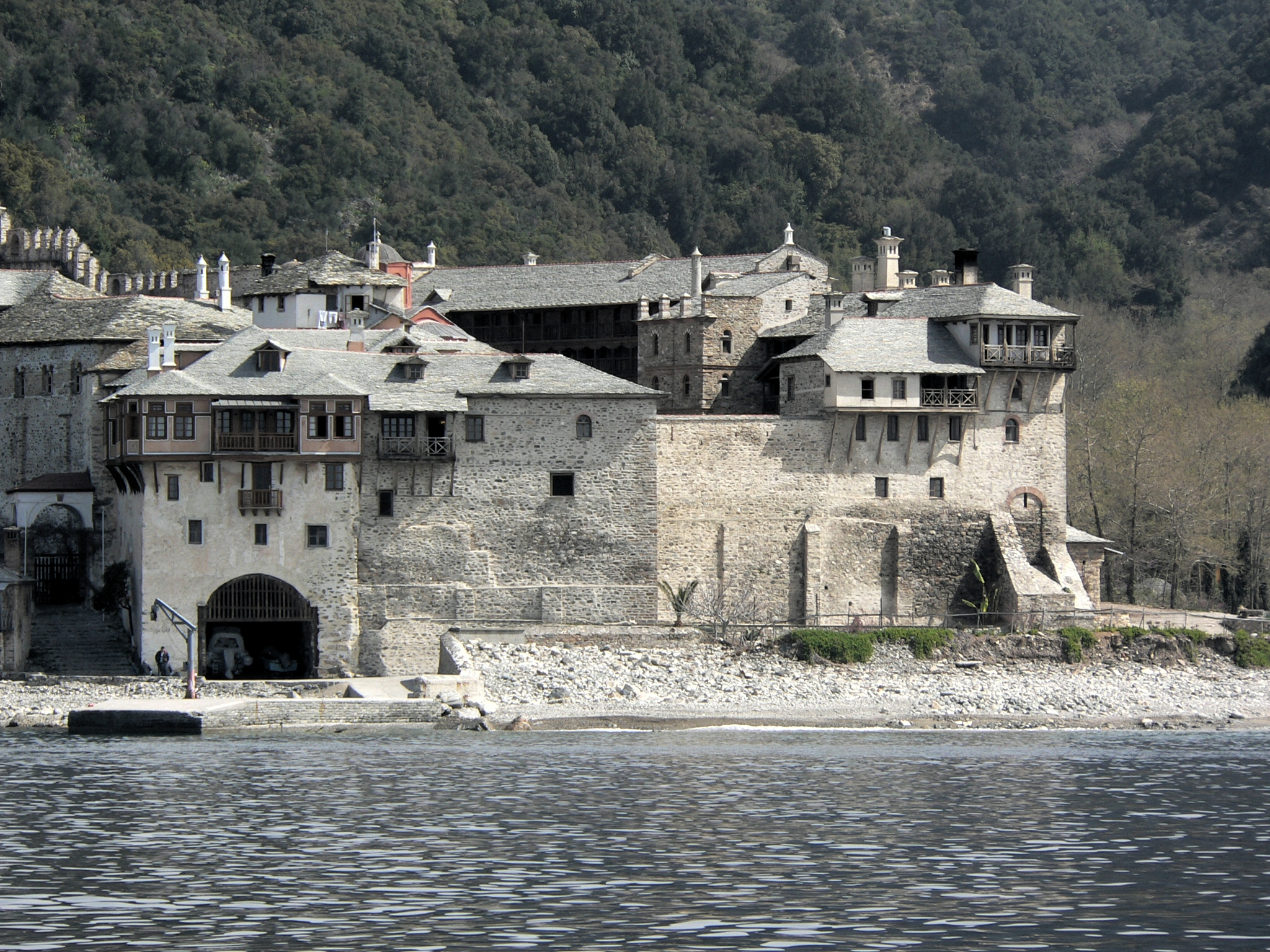 Monastery Xenophontos on Athos